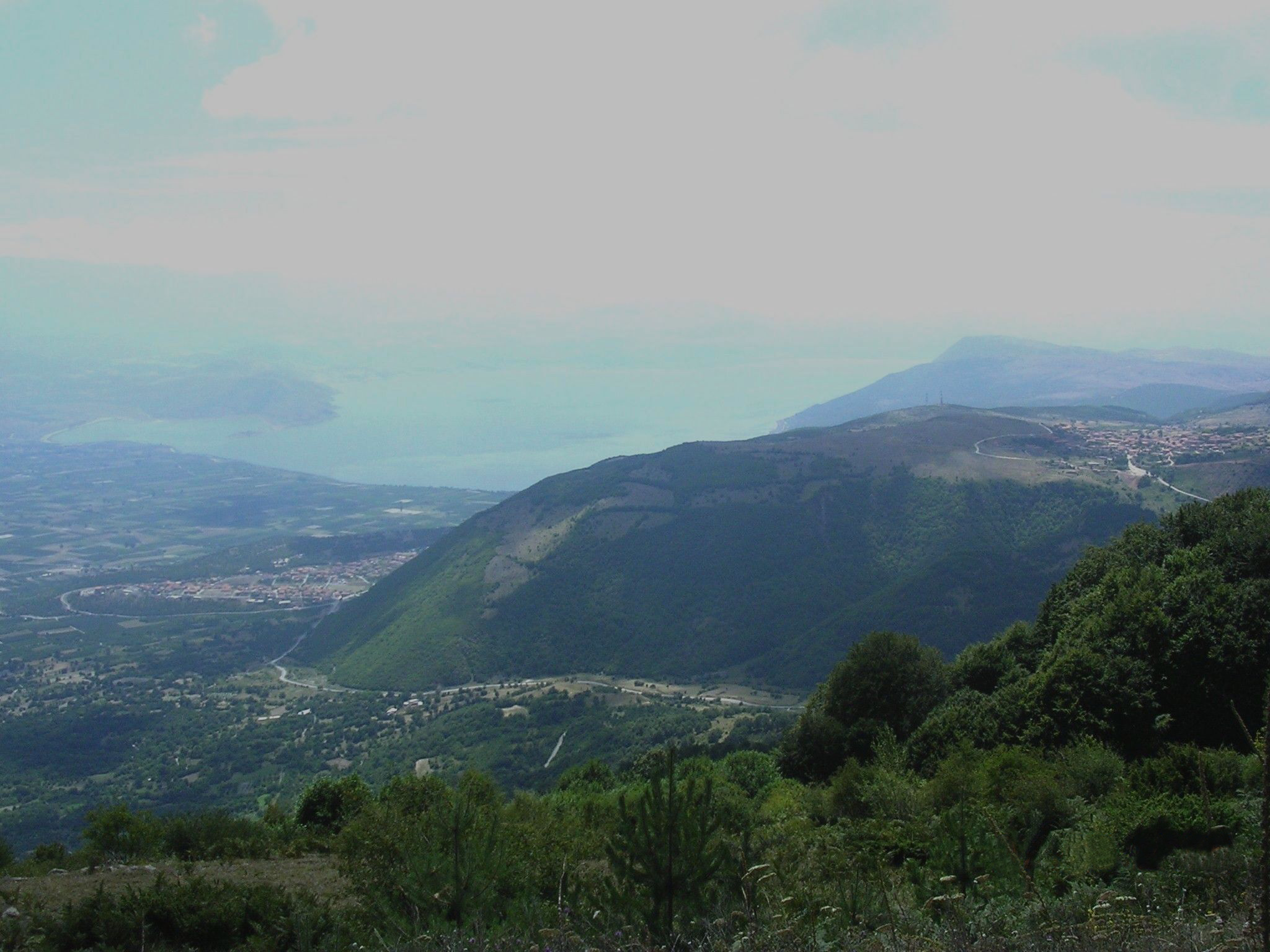 Village of Agios Athanasios, near at the Voras Mountains, Vegoritida Municipality, Pella Prefecture, Macedonia, Greece.